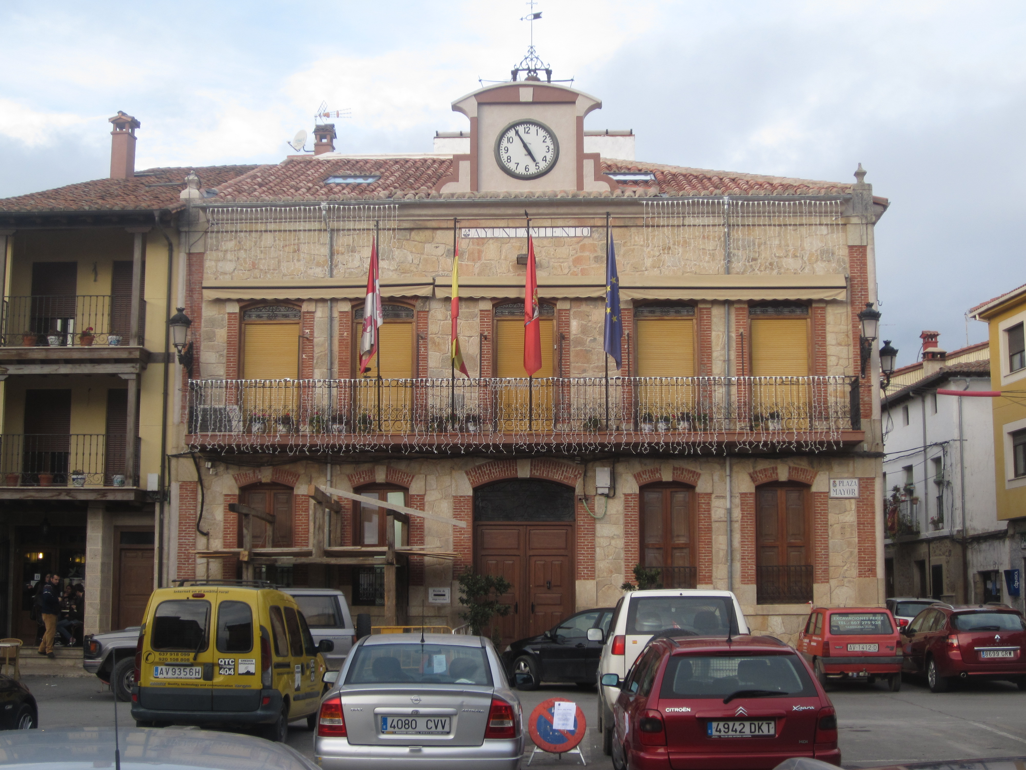 Candeleda's Council.